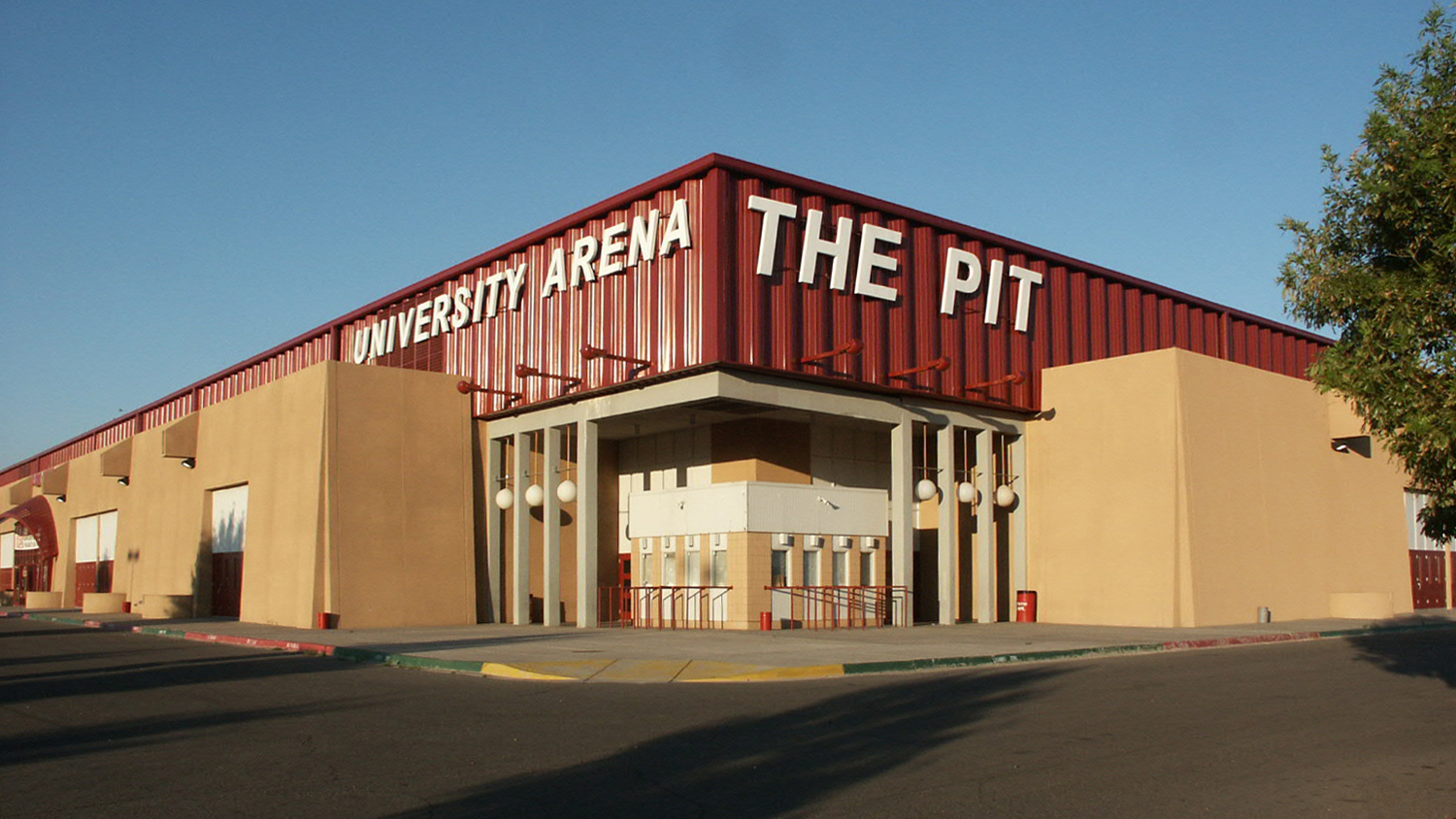 The Pit (University Arena) in Albuquerque, New Mexico, USA, 2003.